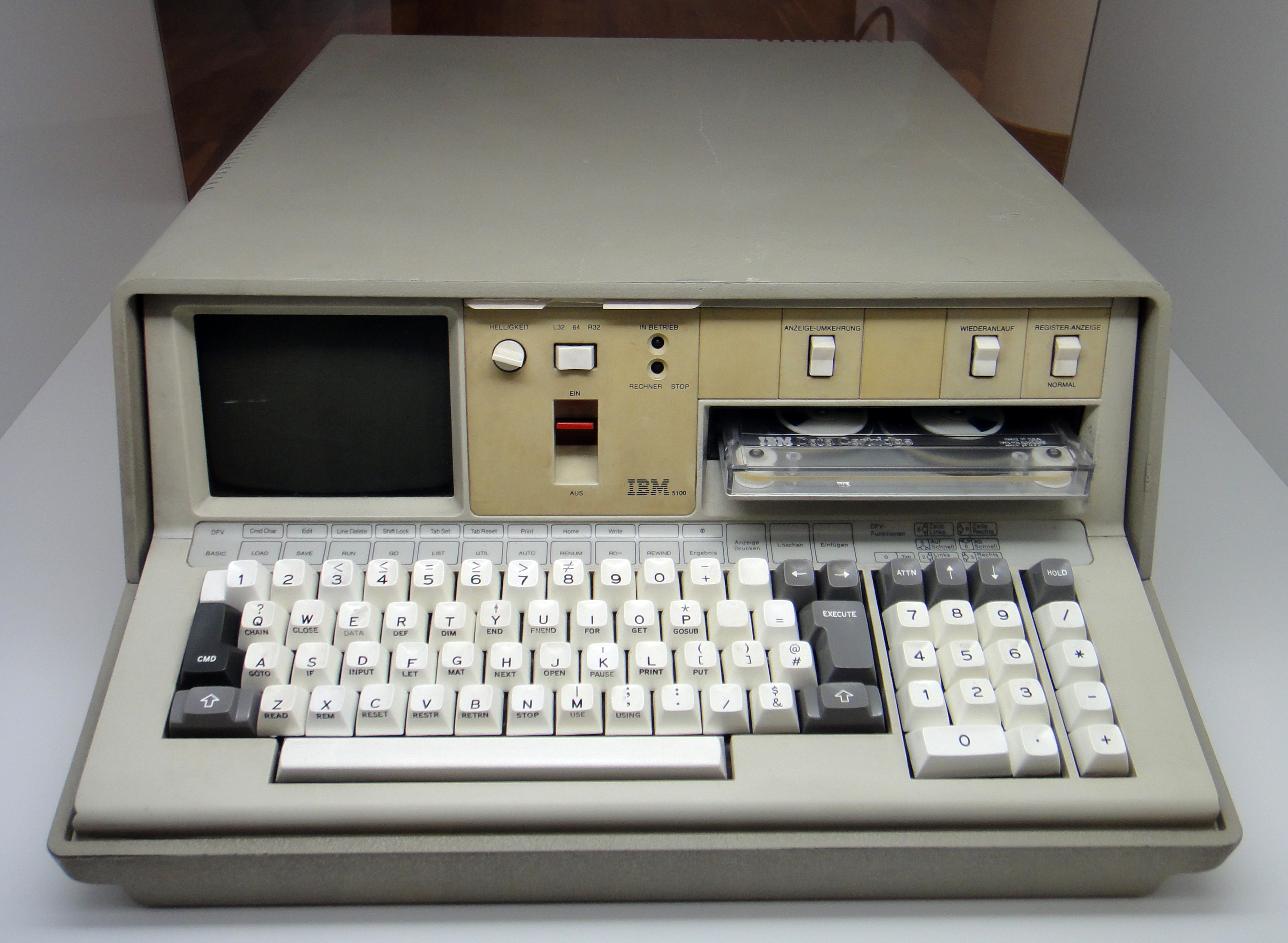 IBM 5100 computer (1974), Swiss German keyboard and markings.